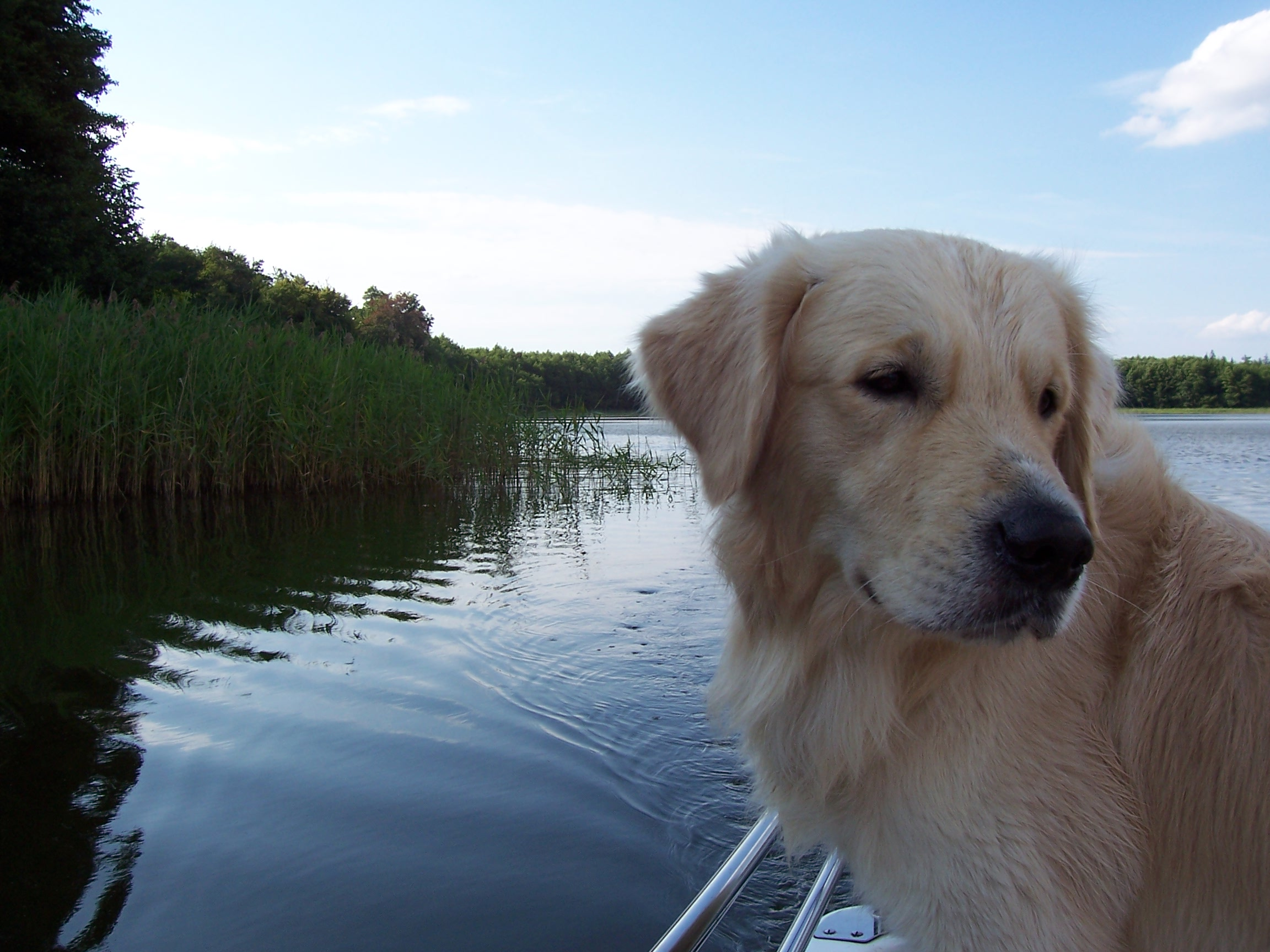 2 years old golden retriver.